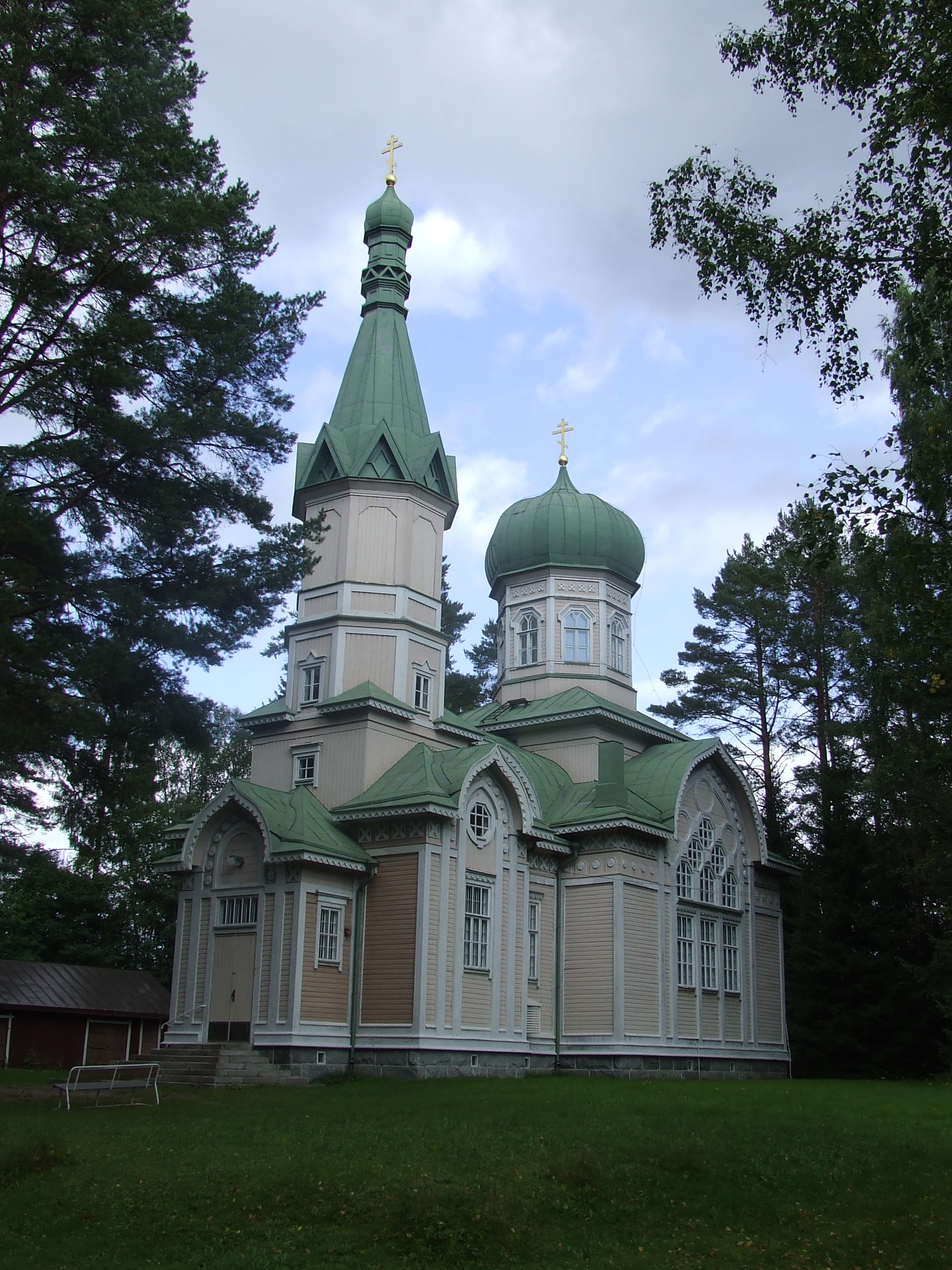 The orthodox Saint John the Baptist church in Polvijärvi, Finland.